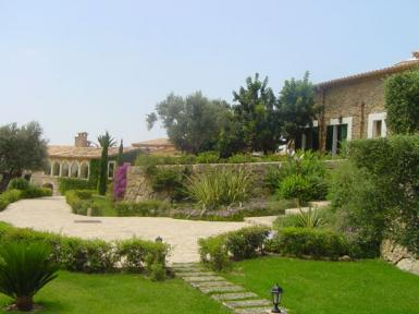 Houses of Binibona, little village near Selva (Mallorca)